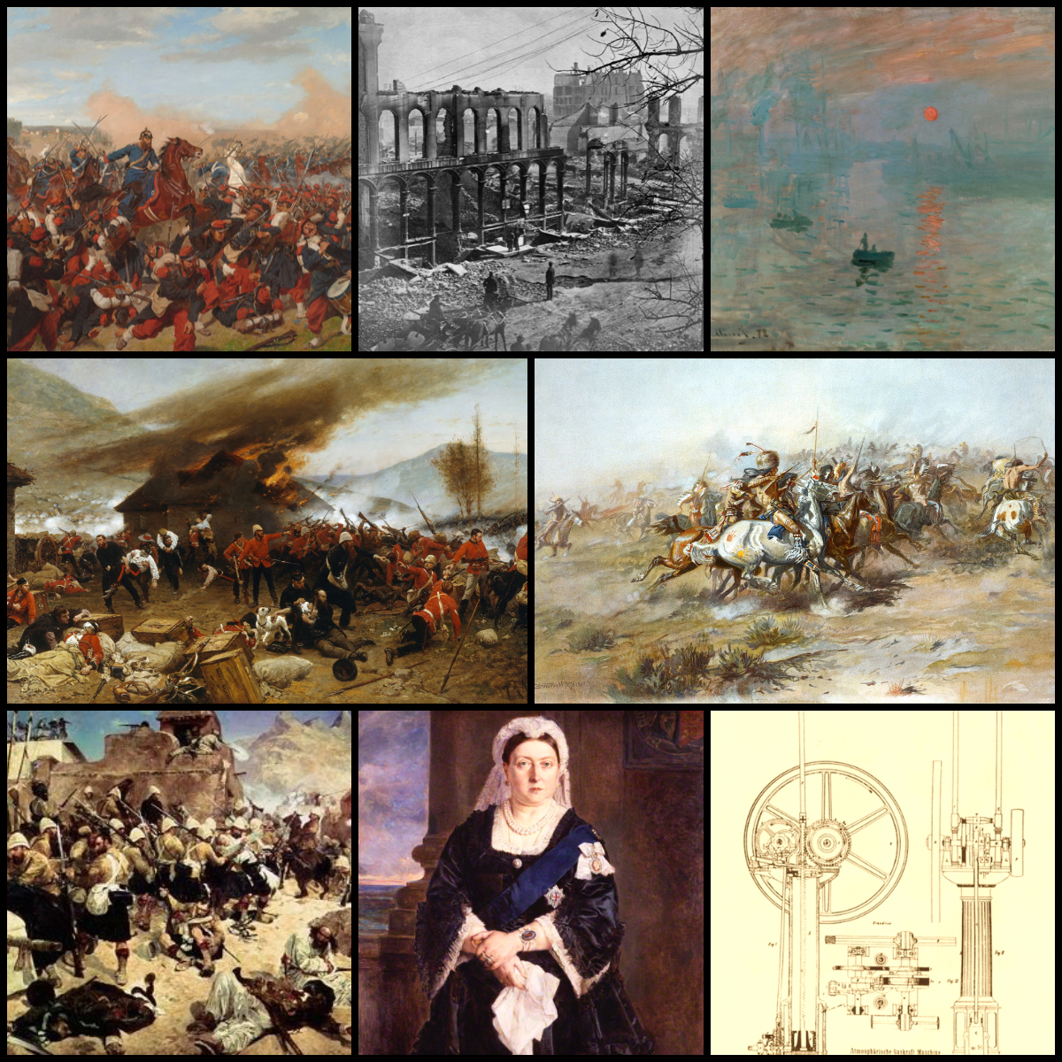 A montage of notable events in the 1870s.